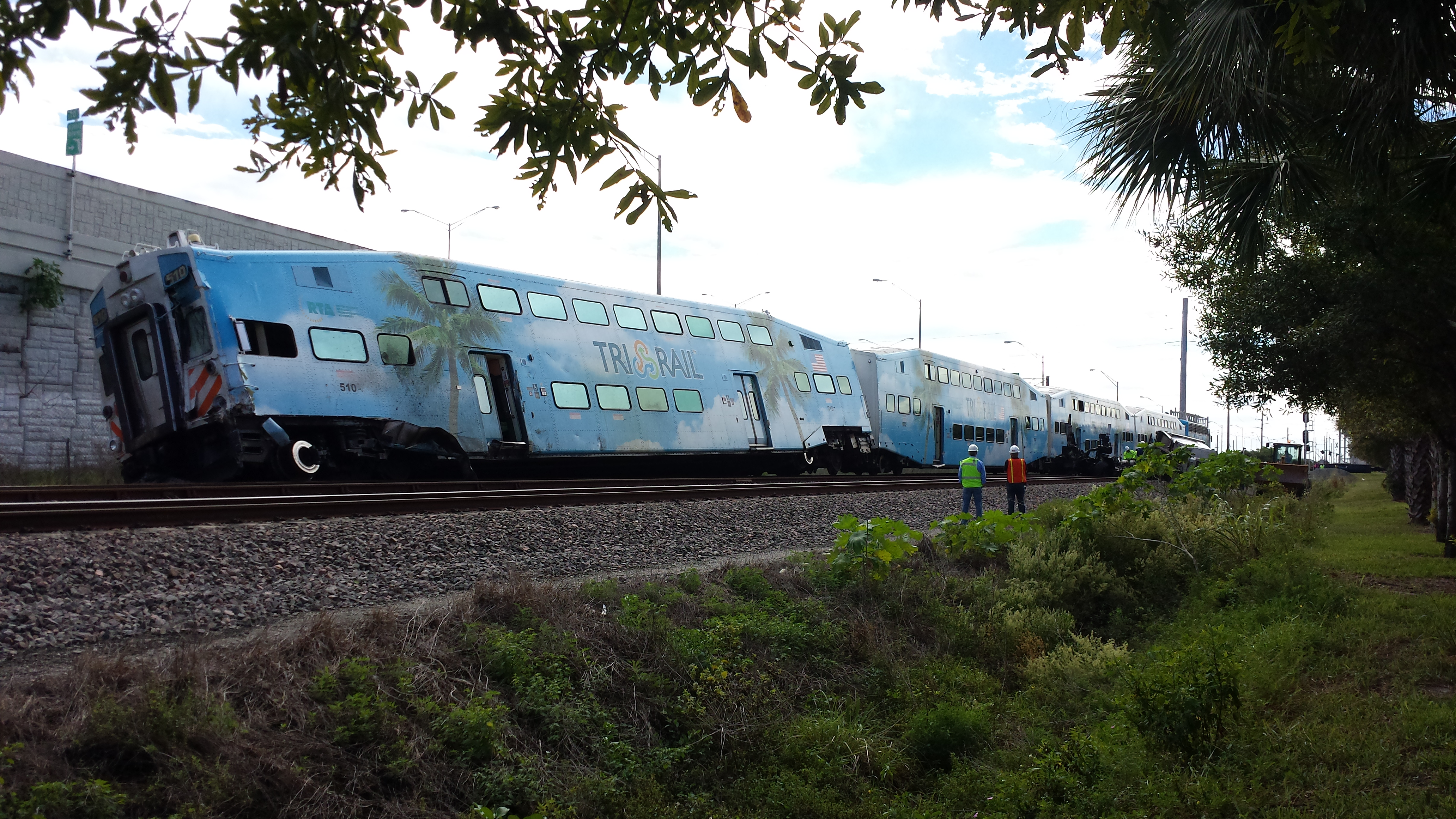 A TriRail train derailed at 6th Avenue South in Lake Worth, Florida in January 2016 after hitting a garbage truck at a grade crossing.